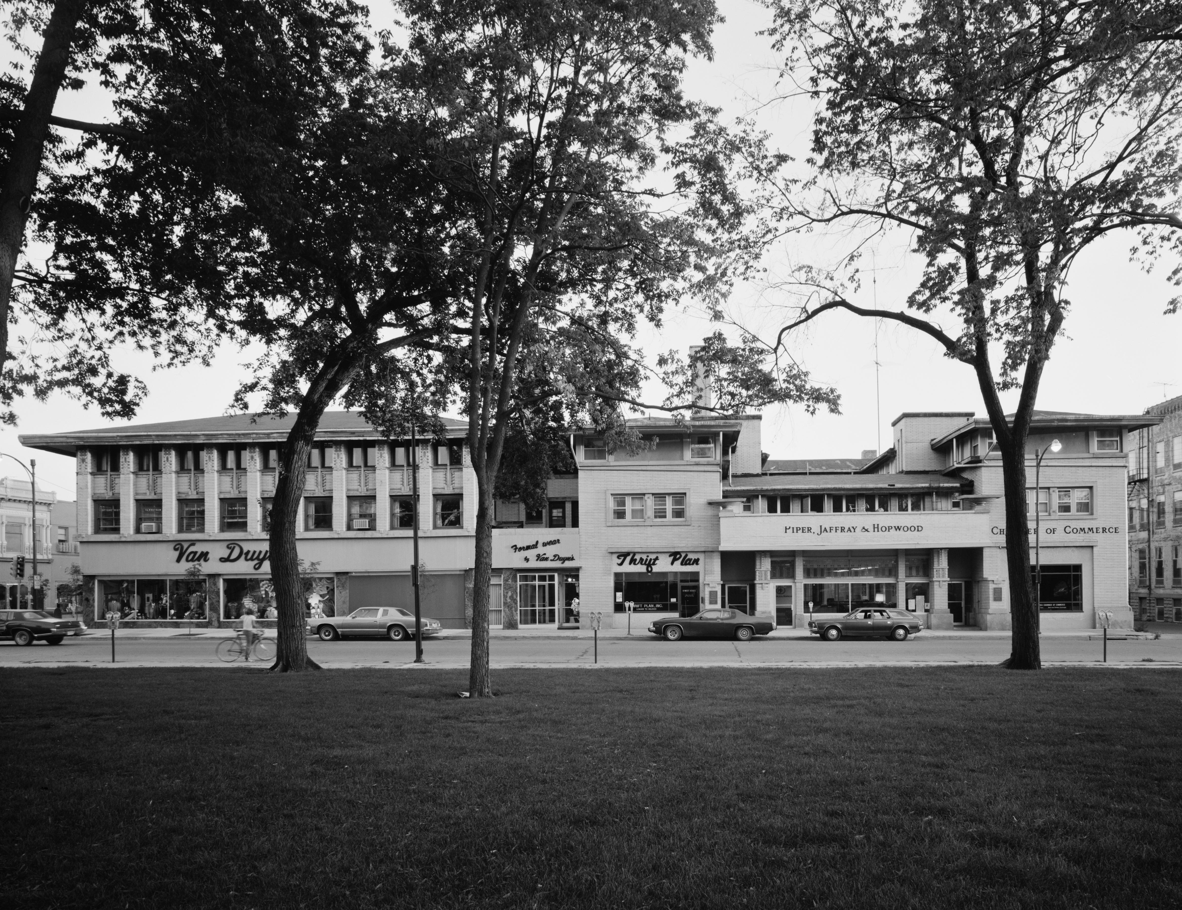 Front of the Park Inn Hotel (right) and side of the City National Bank Building (left), located at 15 W. State Street and 4 S. Federal Avenue respectively in Mason City, Iowa, United States. Built in 1909, the Prairie School buildings are both listed on the National Register of Historic Places.